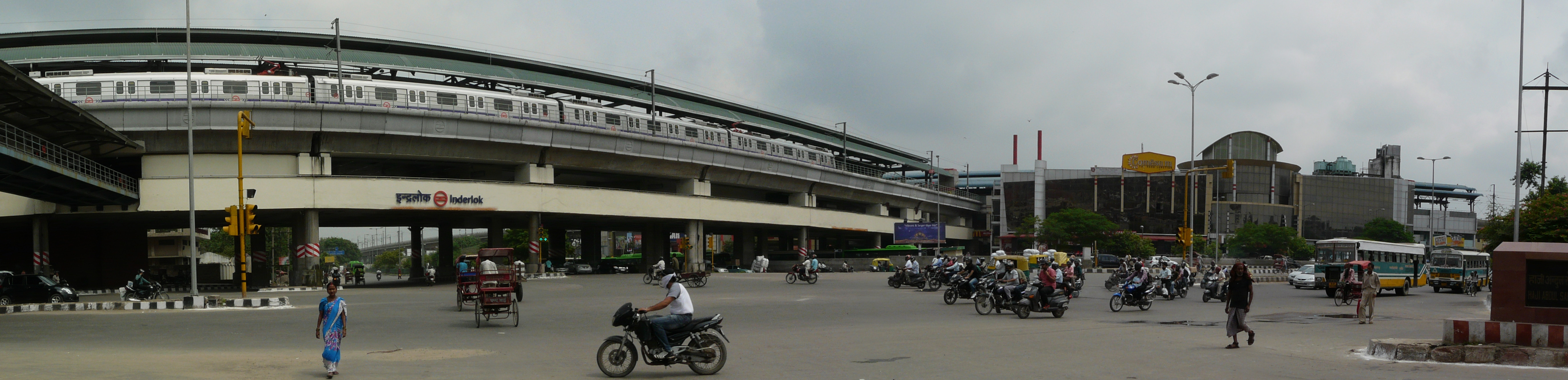 Inderlok is the interchange station between the Red and Green lines. The green line station is at the left of the image. To the right is the "mall" at the station, with the red line station directly behind it.